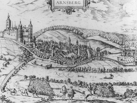 View of Arnsberg with the castle, and Westinghausen monastery, in Westphalia, circa 1588, by an unknown engraver. Foreground, two men, presumably the lord of the castle and a visitor, middle ground, the Rurh river, with a "new" bridge across it (the old one is in ruins slightly to the left). Castle is on the left, town in the middle, and monastery on the far right.